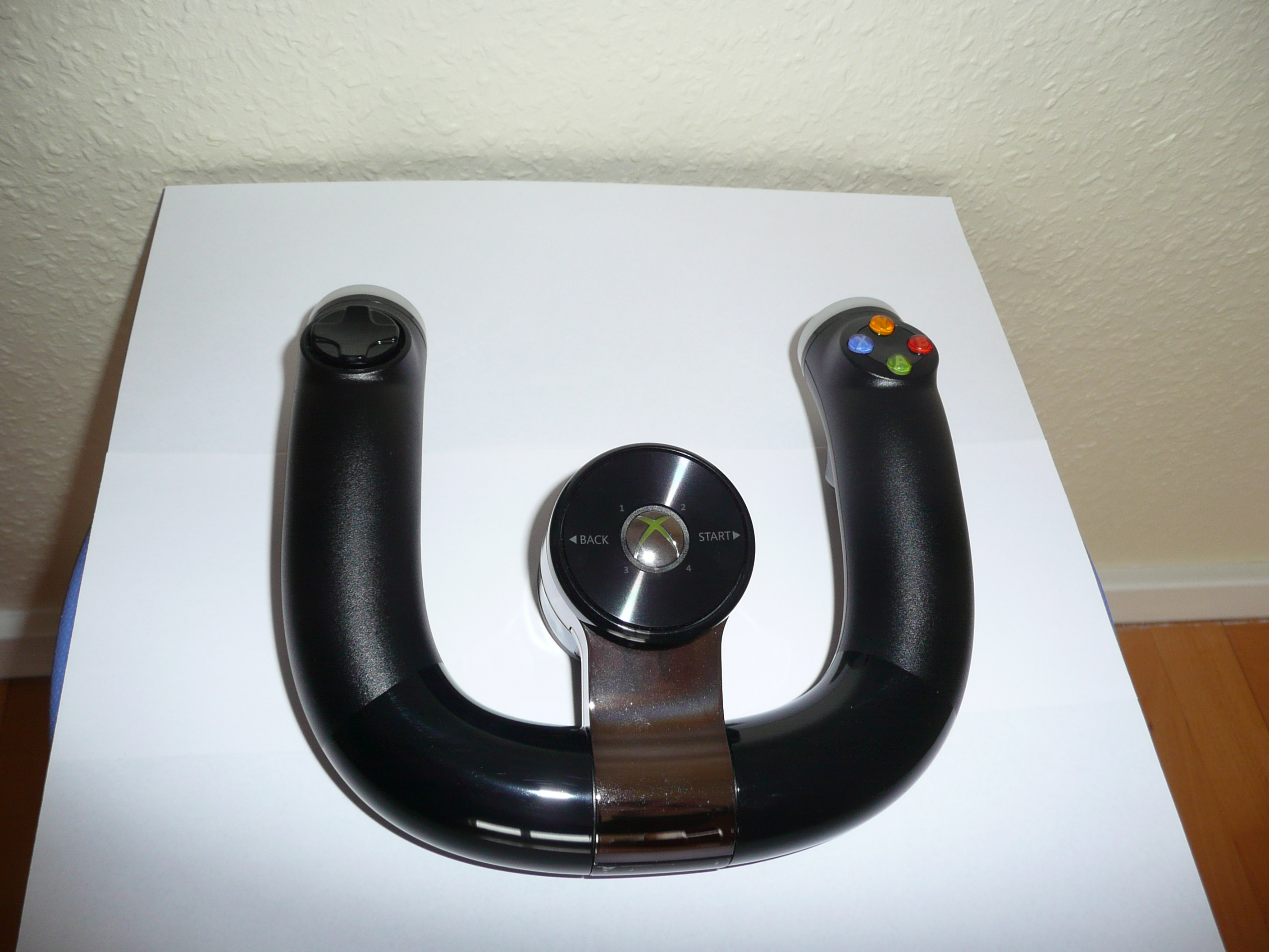 Xbox 360 Wireless Speed Wheel. A racing wheel-type controller using accelerometers for sensing turns.